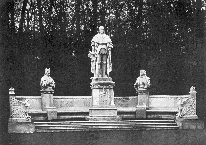 Monument group № 16 in the former Siegesallee in Berlin. The central monument commemorates Brandenburg’s Margrave and Elector (1413–1471) Frederick II. The bust on the left commemorates Chancellor and Bishop Friedrich Sesselmann; the bust on the right Berlin’s Burgomaster Wilhelm von Blankenfelde. Sculptor: Alexander Calandrelli, unveiled 22 December 1898.